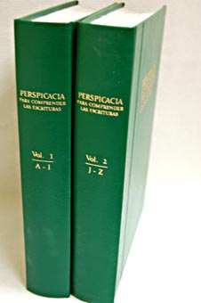 Perspicacia para comprender las escrituras, 2 volúmenes de los Testigos de Jehová